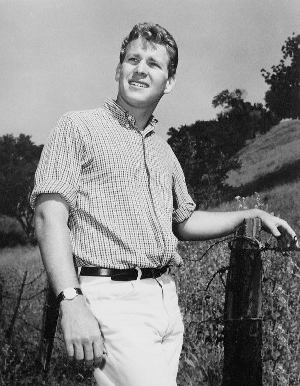 Photo of Ryan O'Neal from the television series Empire.